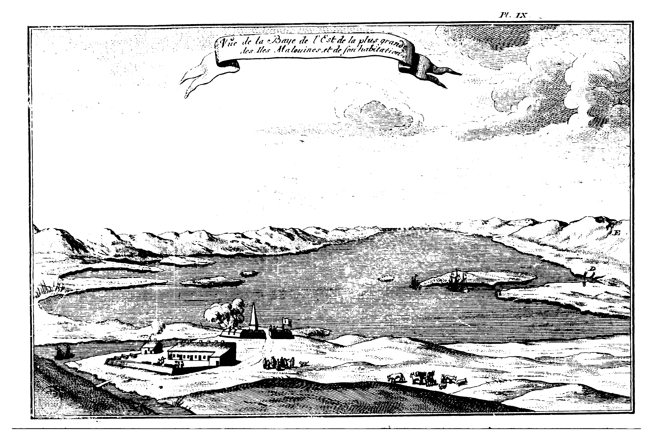 View of the East Bay of the largest of the Malouines Islands and its dwelling. Original: Vue de la Baye de l'Est de la plus grande des îles Malouines et de son habitation.